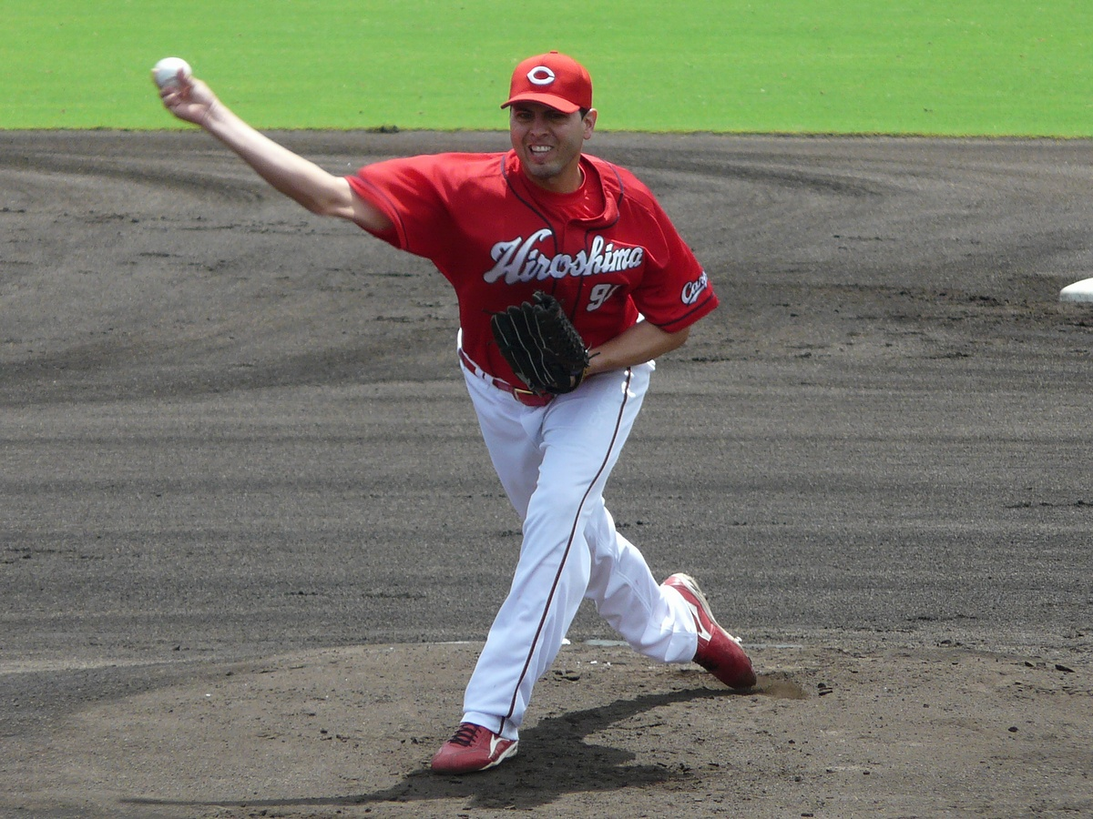 Giancarlo Alvarado, pitcher of the Hiroshima Toyo Carp, at Hanshin Naruohama Baseball Ground.